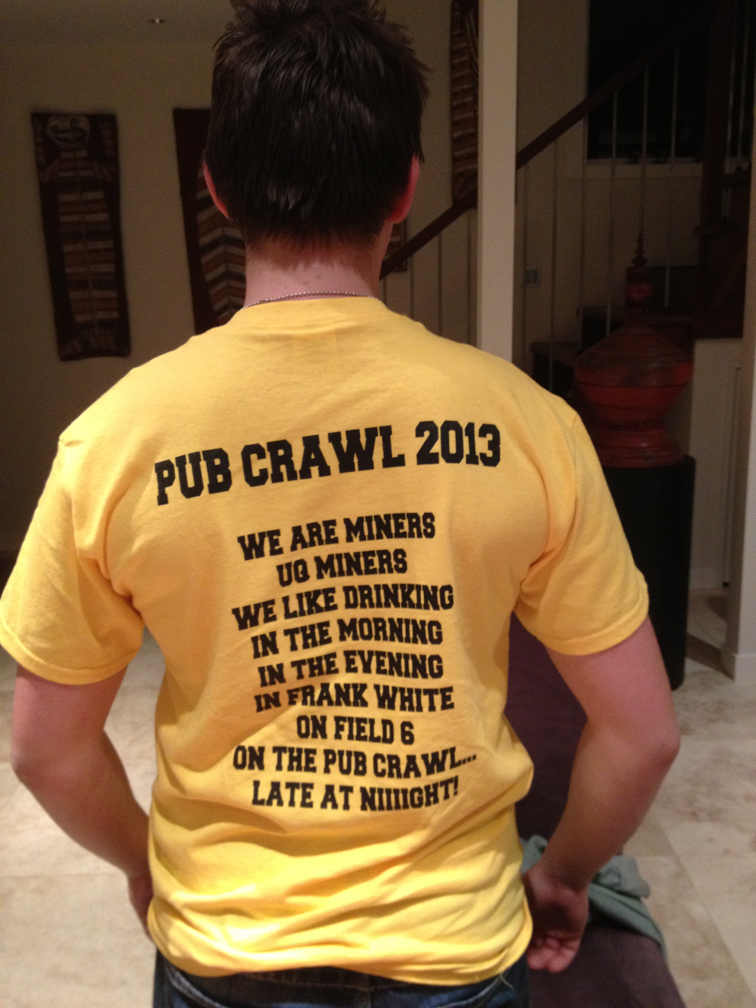 University of Queensland Mining & Metallurgy Association Pub Crawl 2013 T shirt